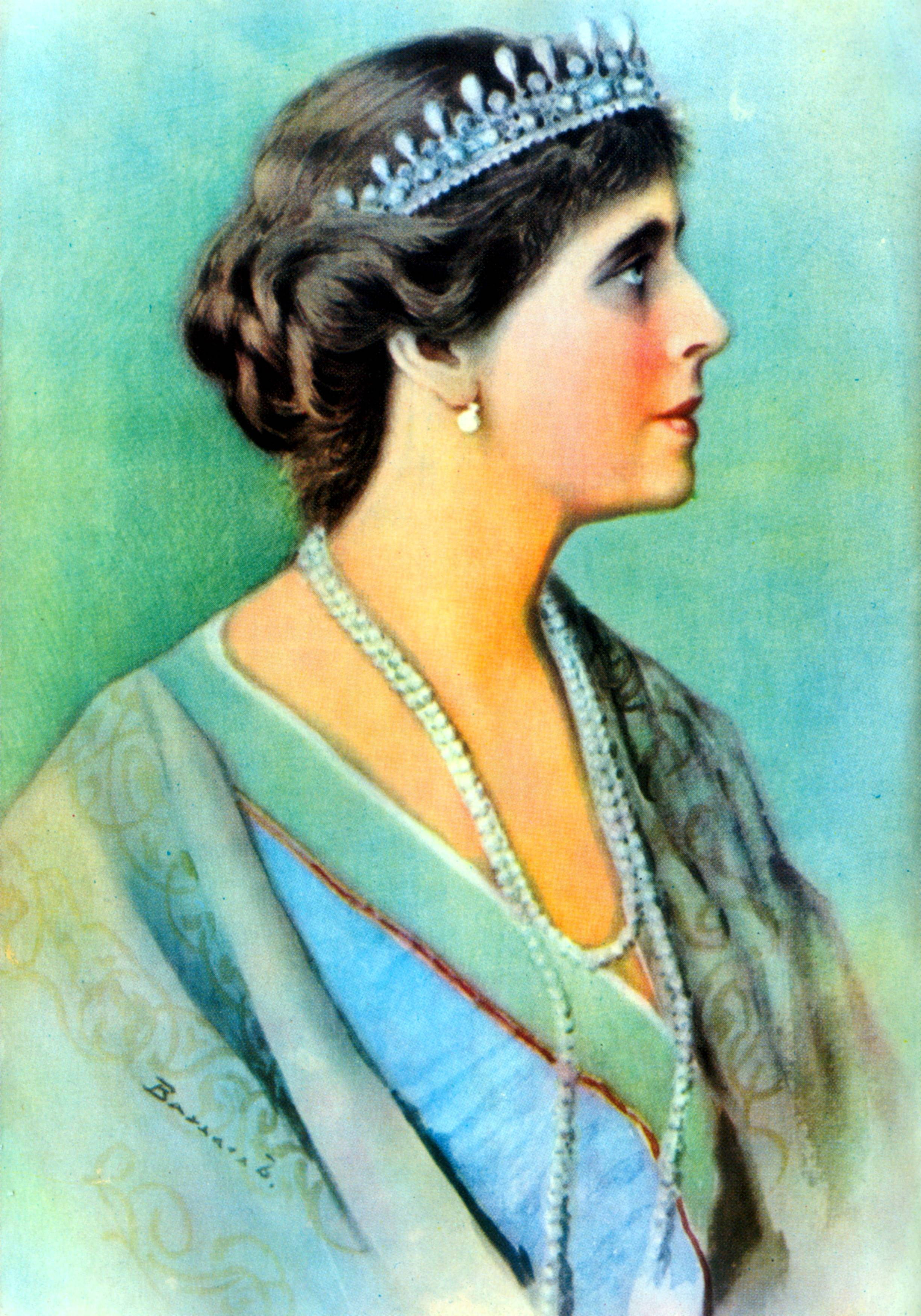 Portrait of Queen Maria of Romania (1875-1938)